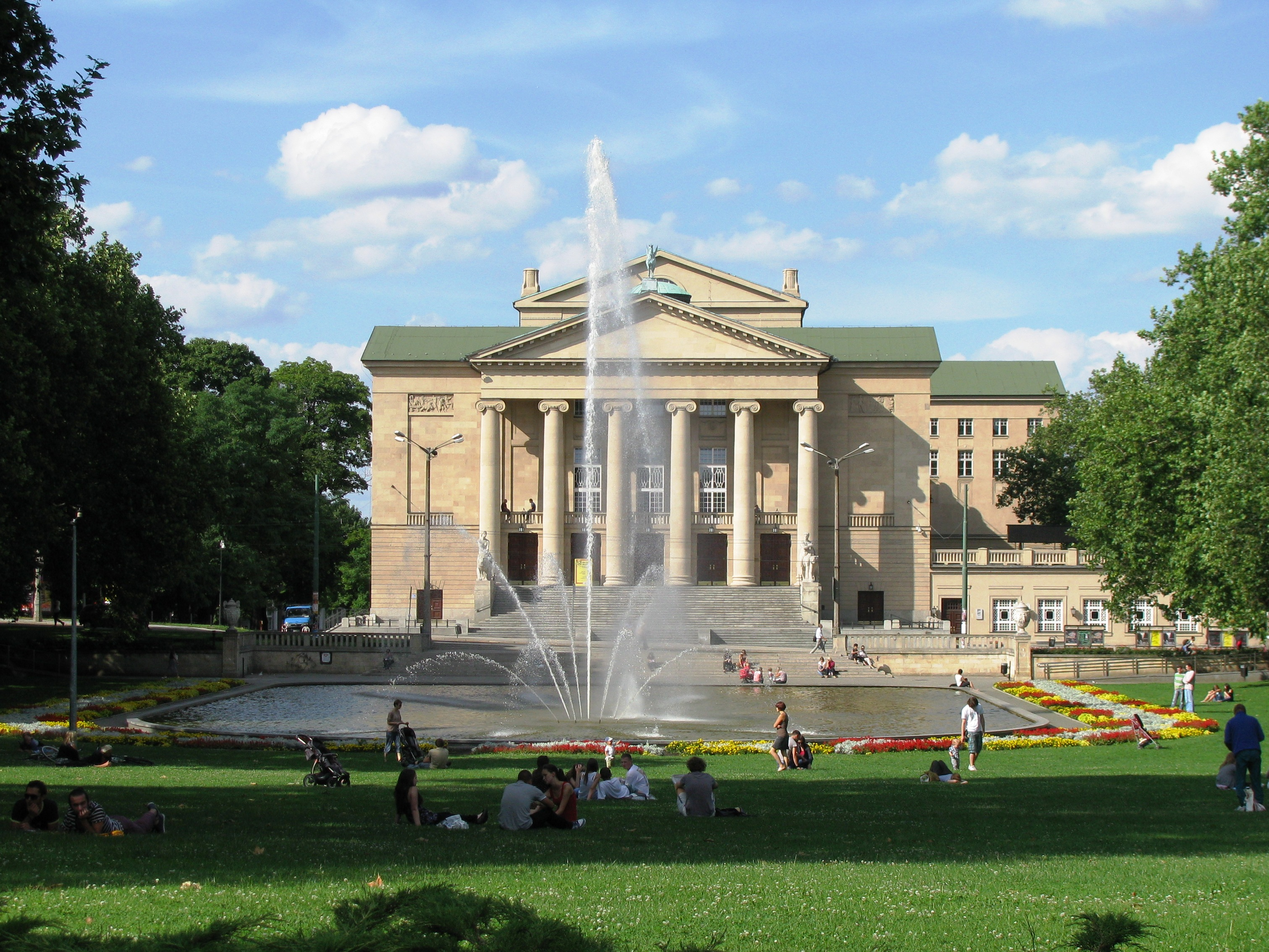 The Great Theatre (Opera) in Poznań.The Scotch Mist Gallery contains many photographs of historic buildings, monuments and memorials of Poland.